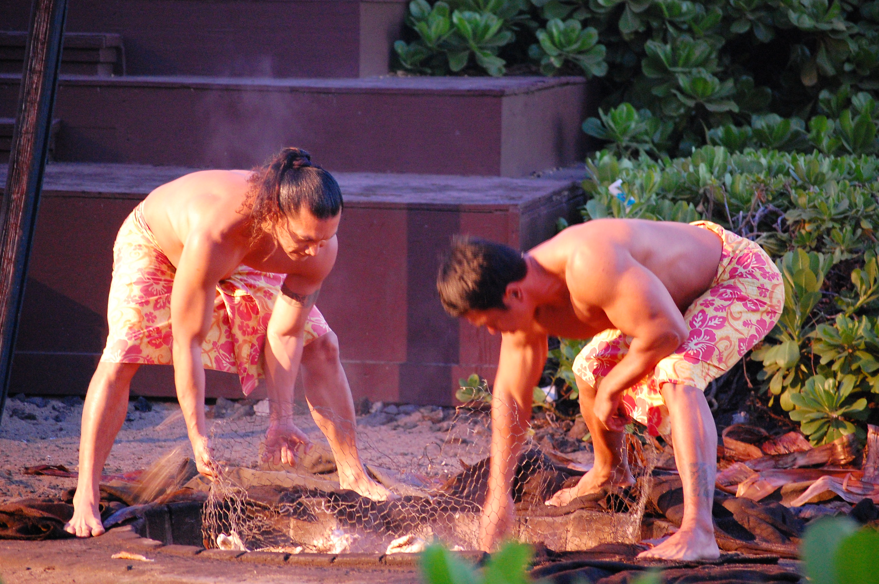 Two hosts of the luau are removing the pig from the ground, after being slow cooked for 18 hours.